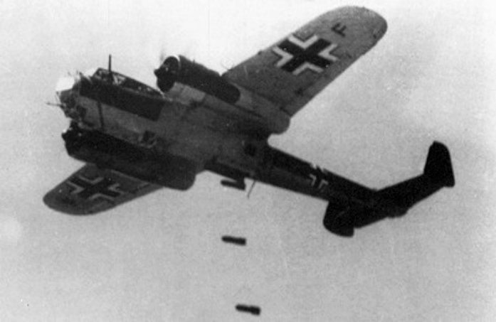 A German Do 17Z bomber of the Kampfgeschwader 76 (KG 76, 76th Bomb Wing) dropping bombs.